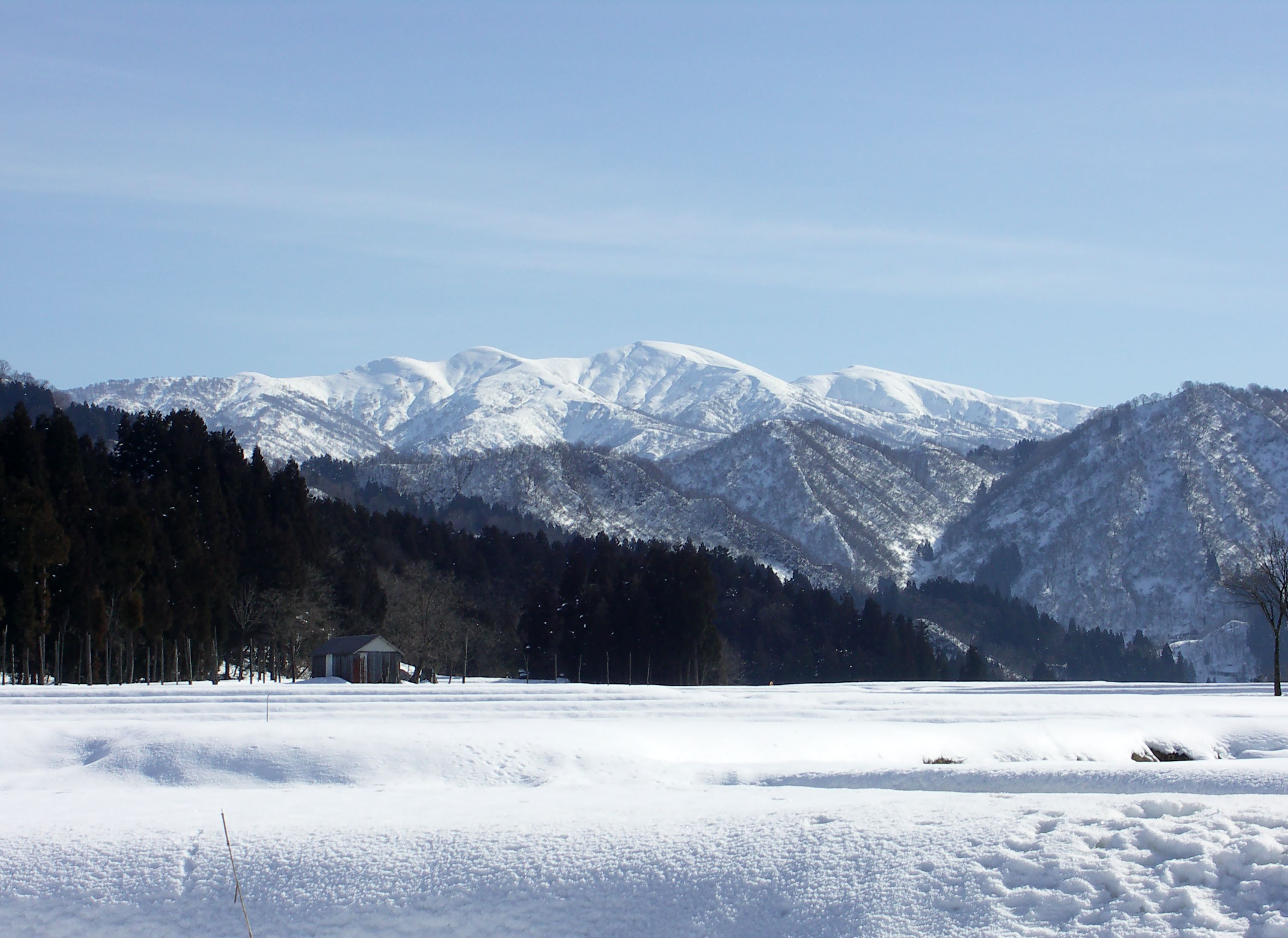 Mt. Sumon (Sumondake) as seen from WNW. Taken from Tochibori settlement.